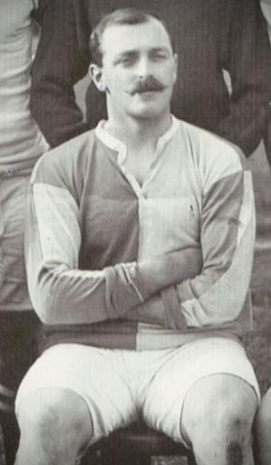 Bob Crompton, English footballer who played for Blackburn Rovers F.C. and England.